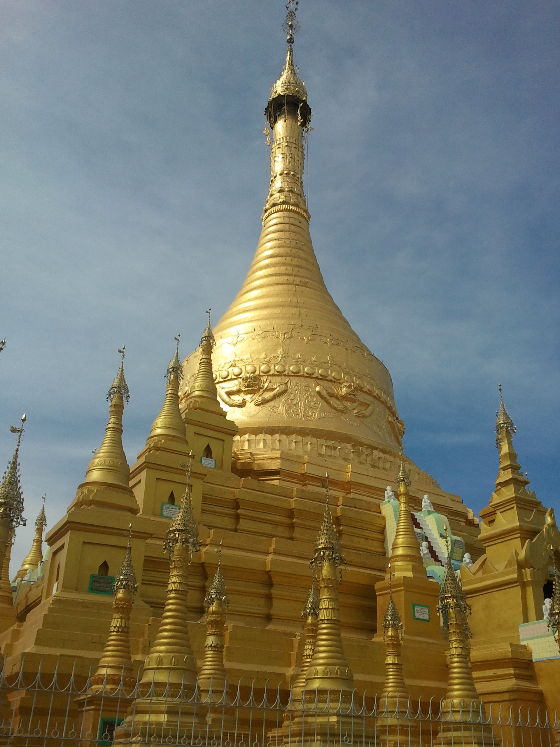 Kyaungtawyar Pagoda in Pwintbyu, Magway Region. မြန်မာဘာသာ: မကွေးတိုင်းဒေသကြီး၊ ပွင့်ဖြူမြို့ရှိ စန္ဒကူးကျောင်းတော်ရာဘုရား